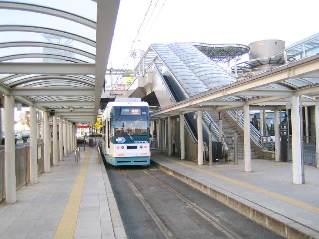 Ekimae Tram Stop on the Toyohashi Rail Road City Line in Toyohashi City, Aichi Prefecture, Japan